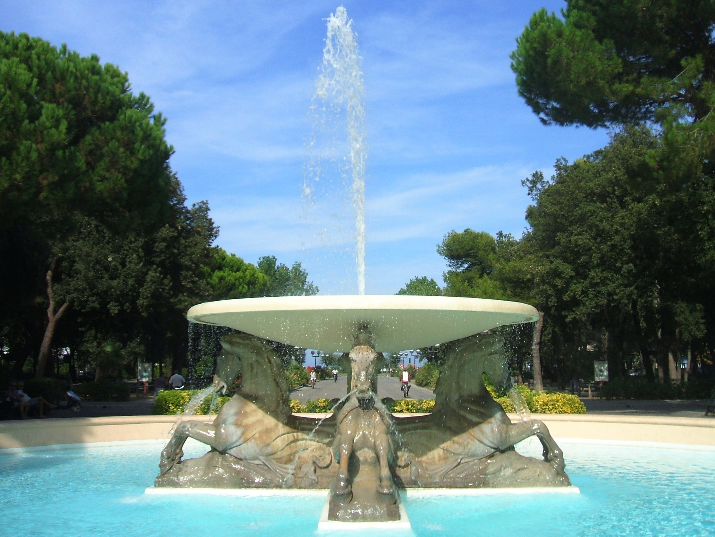 Fontana dei Quattro Cavalli in Rimini, Italy